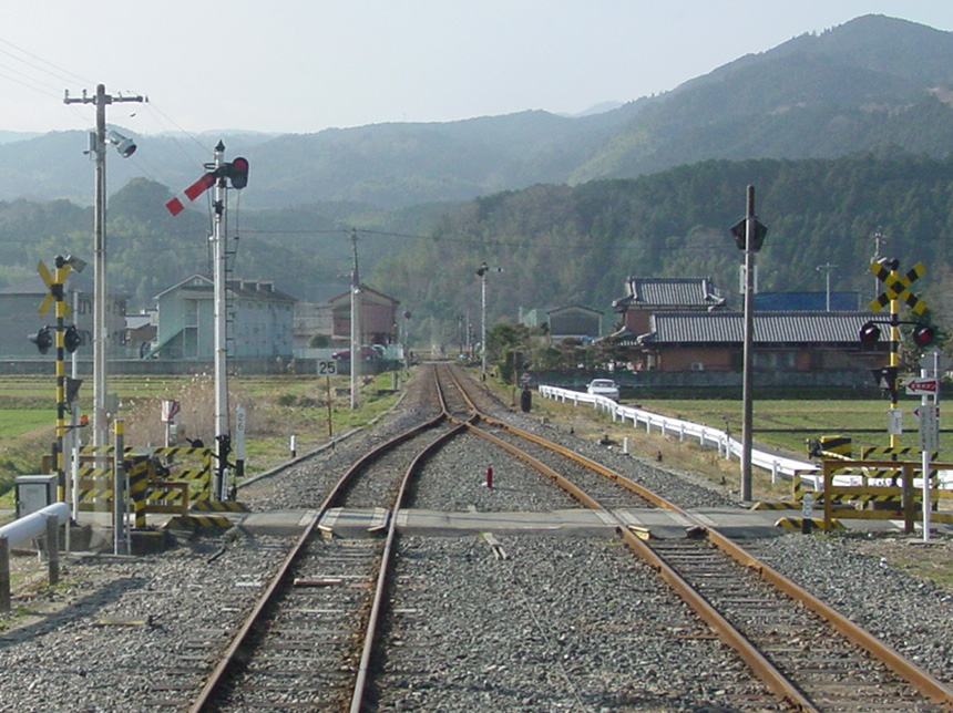 Ieki Station